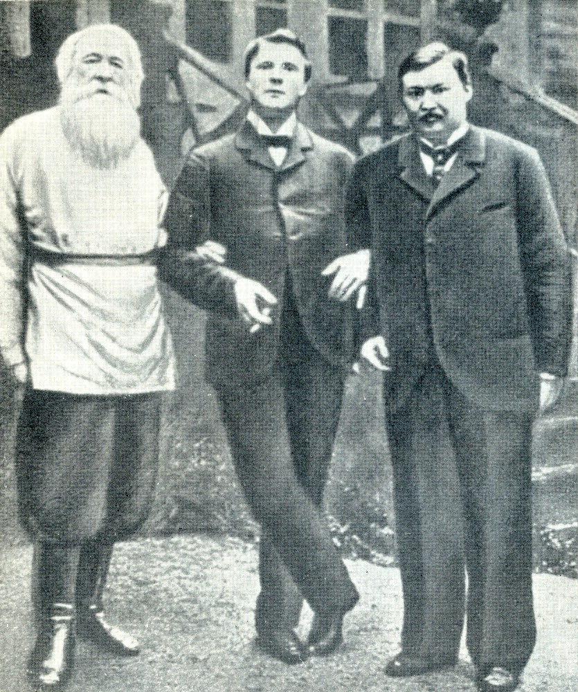 Russian bass, Feodor Chaliapin (1873 - 1938)